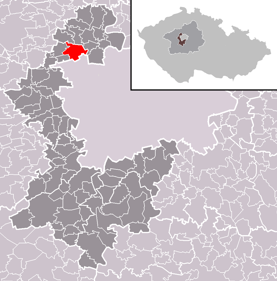 Location of Tuchoměřice municipality within Prague-West District and administrative area of Černošice as a Municipality with Extended Competence.